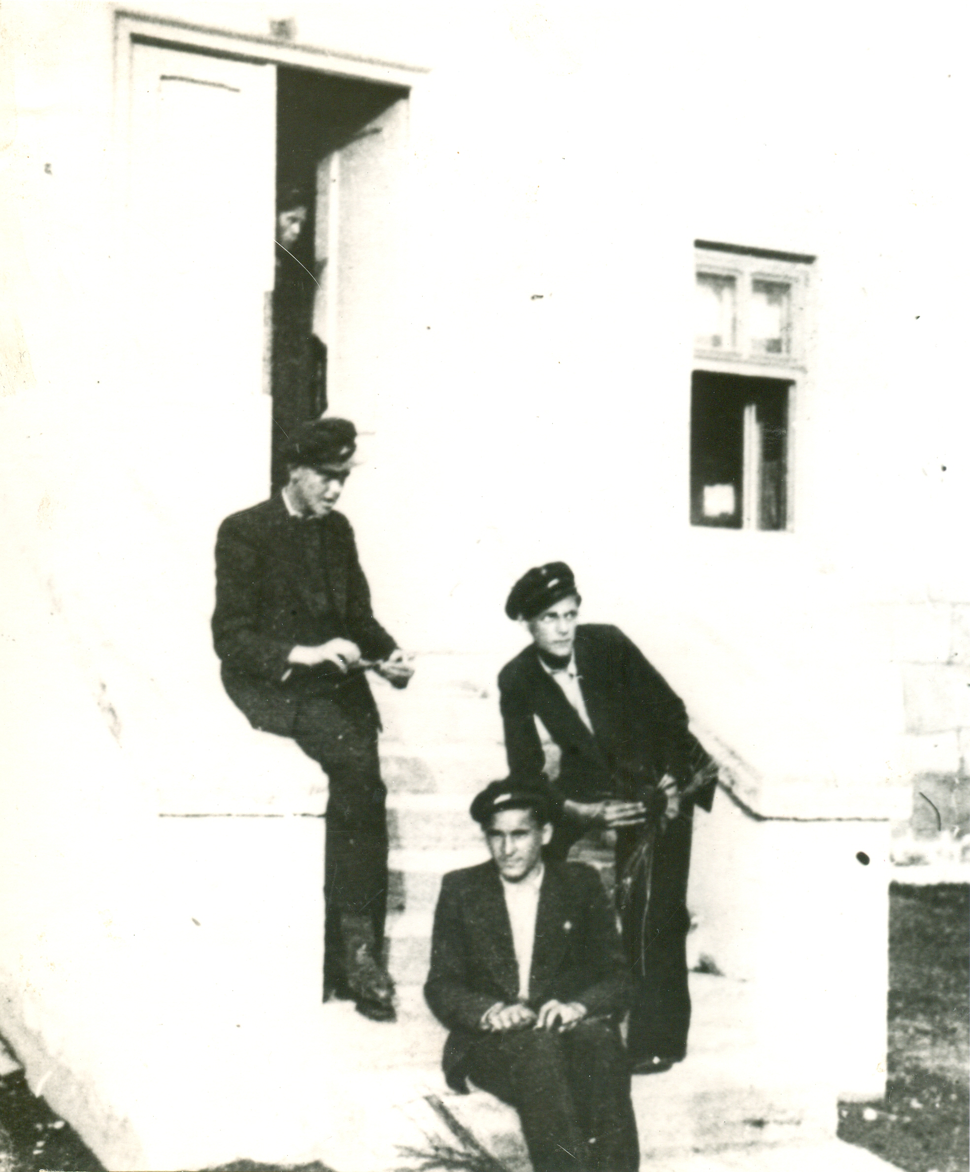 Miomir Radosavljevic Piki, Radomir Nedeljkovic Uca and Strahinja Popovic, participants of the National Liberation Struggle from Negotin Srpski (latinica): Miomir Radosavljević Piki, Radomir Nedeljković i Strahinja Popović na stepenicama Uciteljske skole u Negotinu oko 1940.